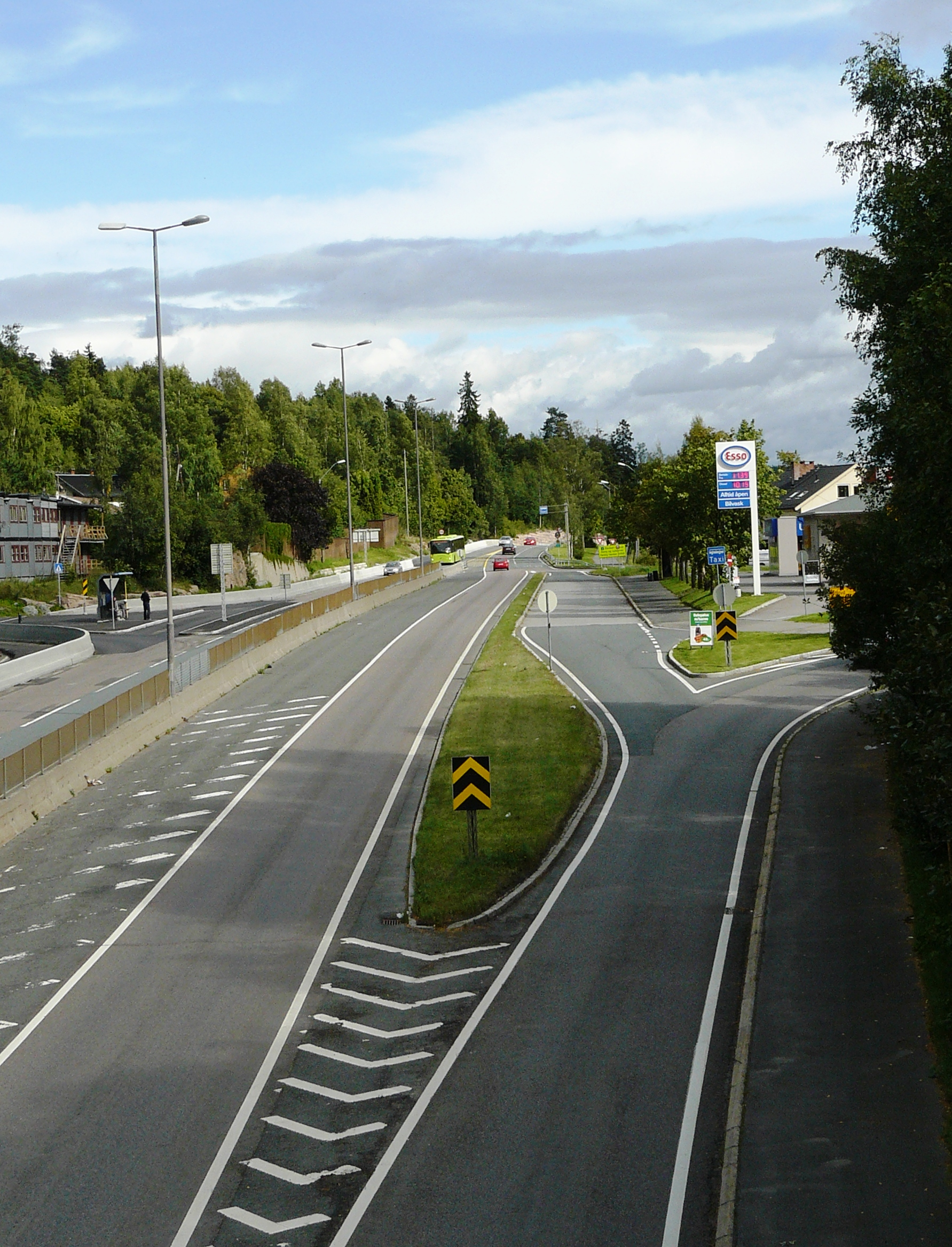 Trondheimsveien, (Rv4) Oslo, towards the east, seen from Grorud